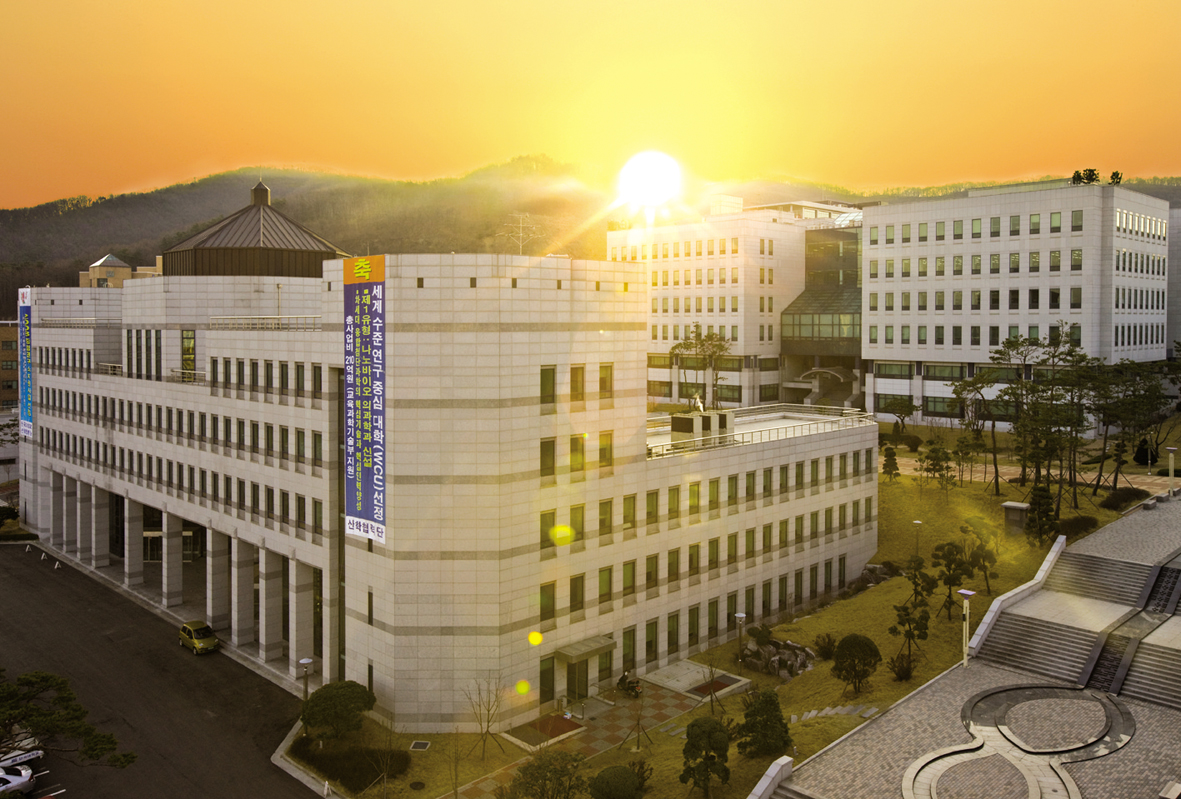 New Start Like University of the nation woke up this morning, Dankook University, Main Building(Beomjeonggwan)